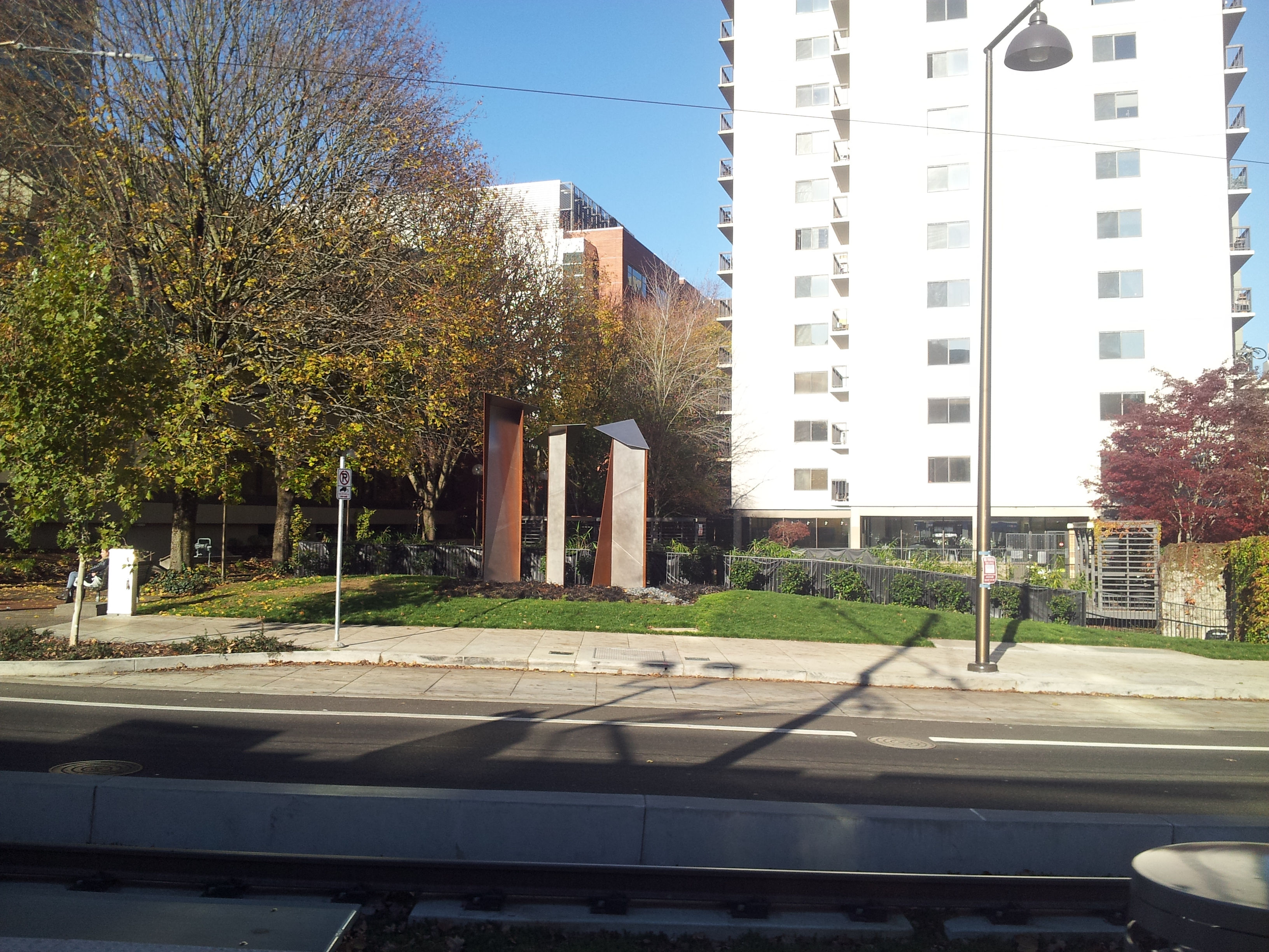 View from the MAX Orange Line's Lincoln St/SW 3rd Ave station in Portland, Oregon in November 2015